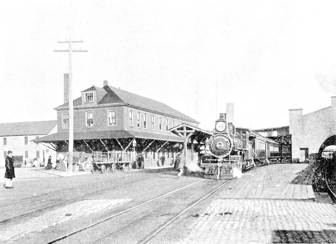 The northbound Boat Train at Fall River Wharf station in the early morning, about to leave for Boston